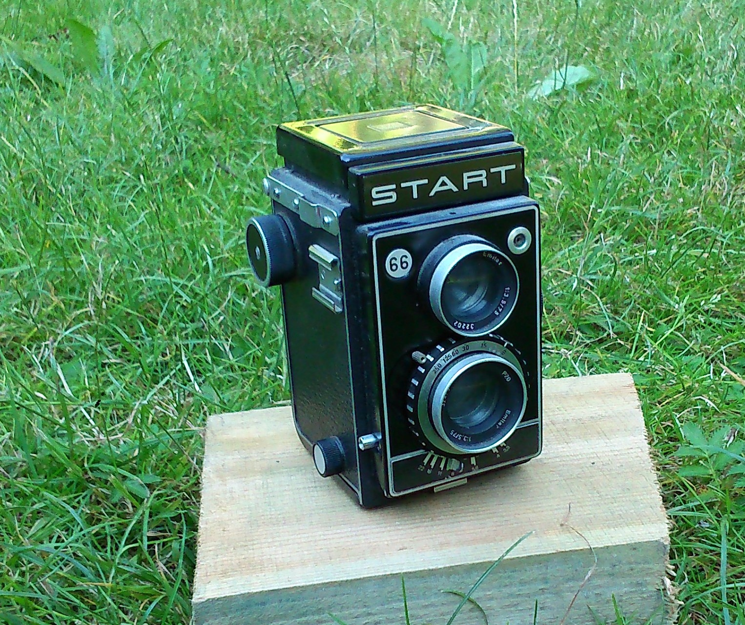 Photo camera Start 66.